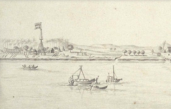 The view of the VOC shipyard in Rembang, ca. 1772.